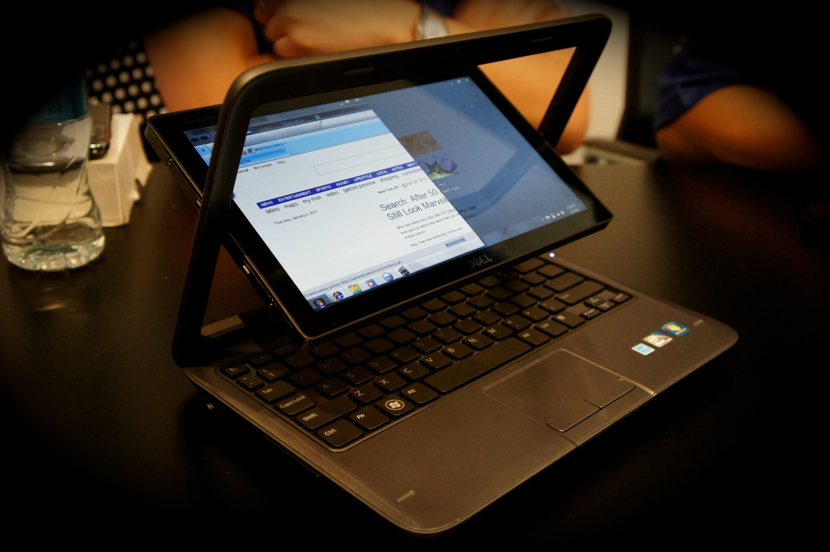 Dell Inspiron Duo 2-in-1 convertible.